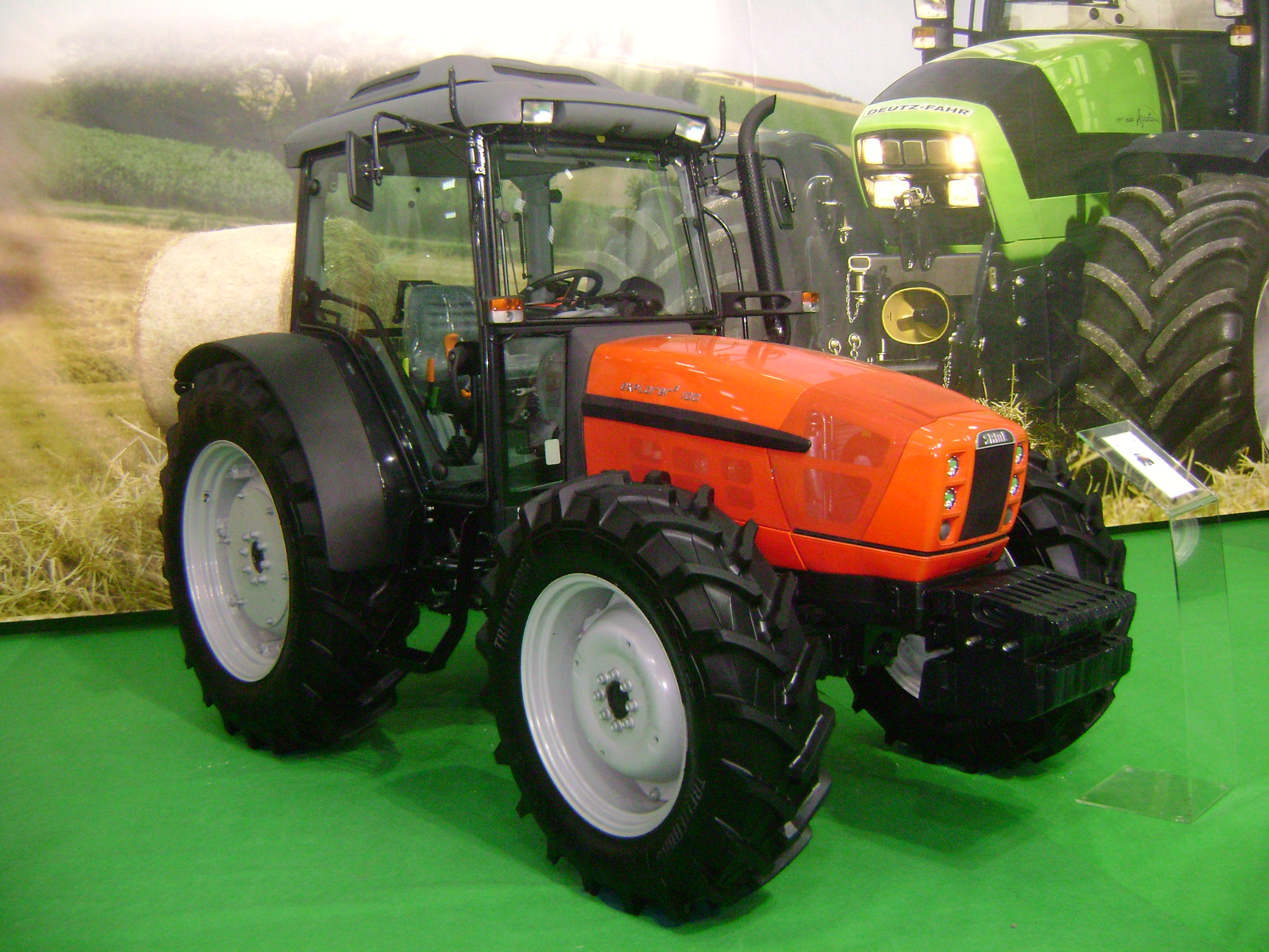 SAME Explorer³ 100 tractor seen in Bucharest, Romania at Romexpo during the 2010 IndAgra Farm international exhibition of equipment and products from the fields of agriculture, animal husbandry and foodstuff